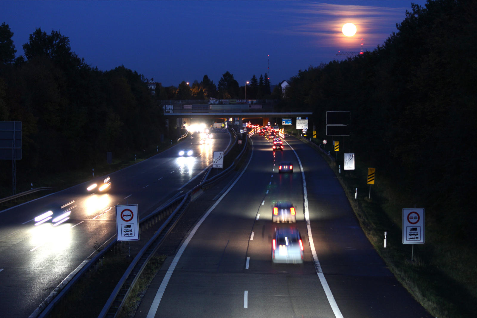 Near Stuttgart university (Vaihingen campus), the highway starting at the "Stuttgarter Kreuz" highway junction as "A 831" leads into downtown Stuttgart as "B 14" federal road. (Bundesstraße 14 in wiki) The picture was taken at an autumn evening with bright moonlight, the camera roughly facing a north-eastern direction, towards Stuttgart. Directly ahead is the Johannesgrabentunnel.